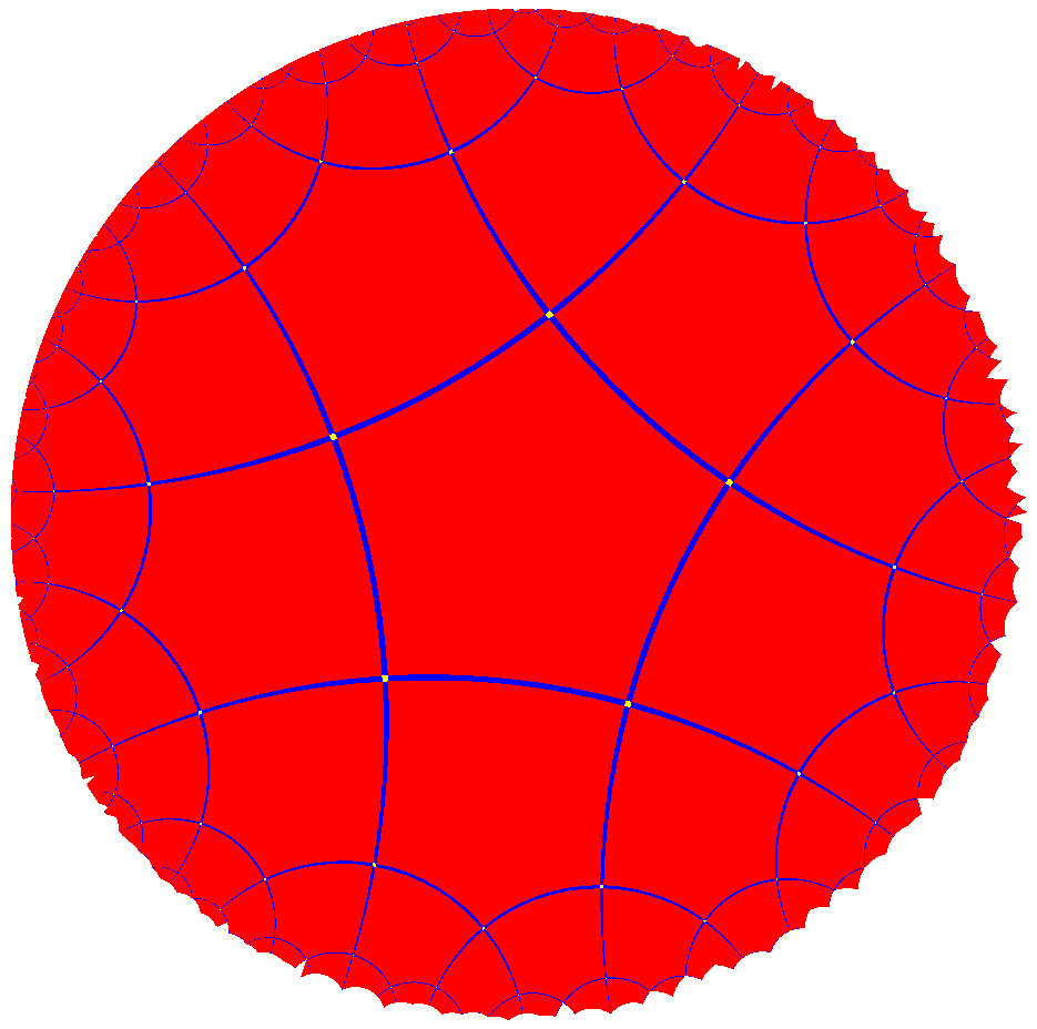 KaleidoTile, Topology and Geometry Software, Jeff Weeks Hyperbolic plane regular tiling: t0{5,4}